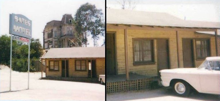 "Psycho" house, motel and car driven by Janet Leigh on Universal Studios lot, Universal City, California